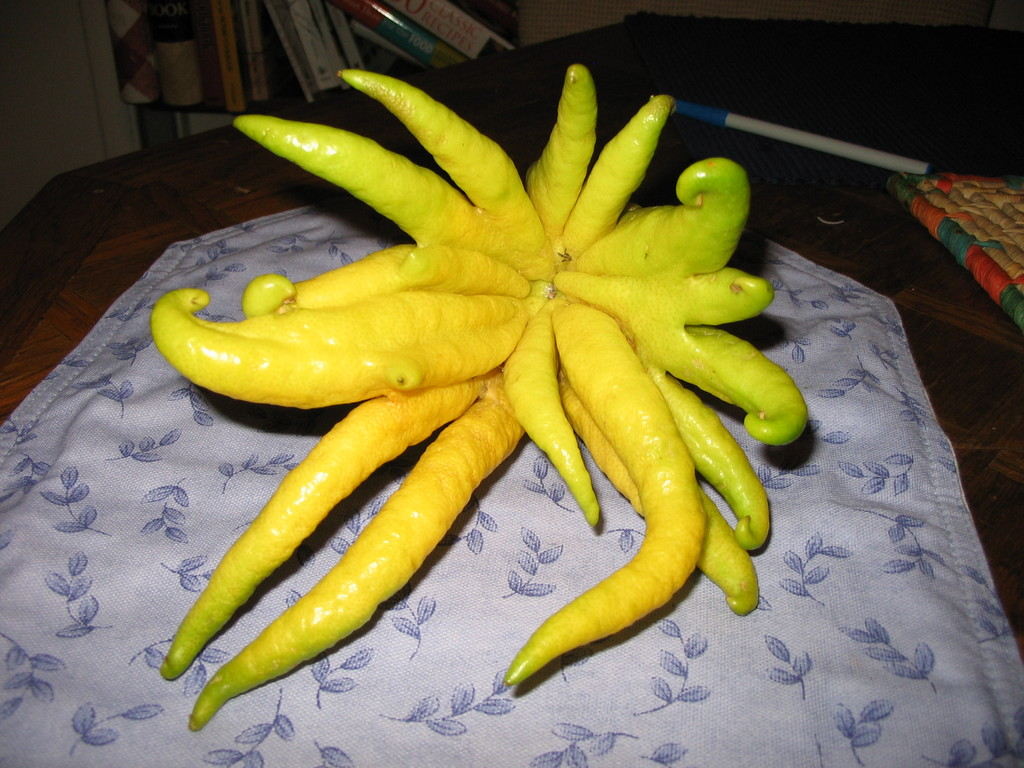 "A Buddha's Hand fruit in all its glory."